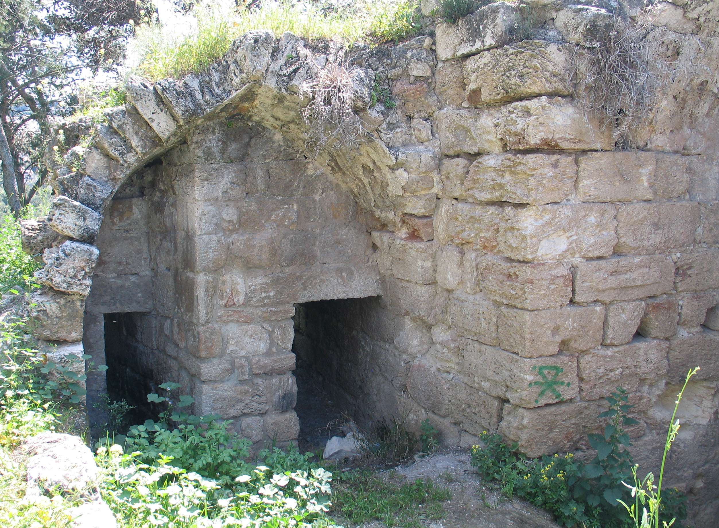 Khirbet Rushmiya (Rosh Maya, Rosh Mayim), Haifa, Israel.